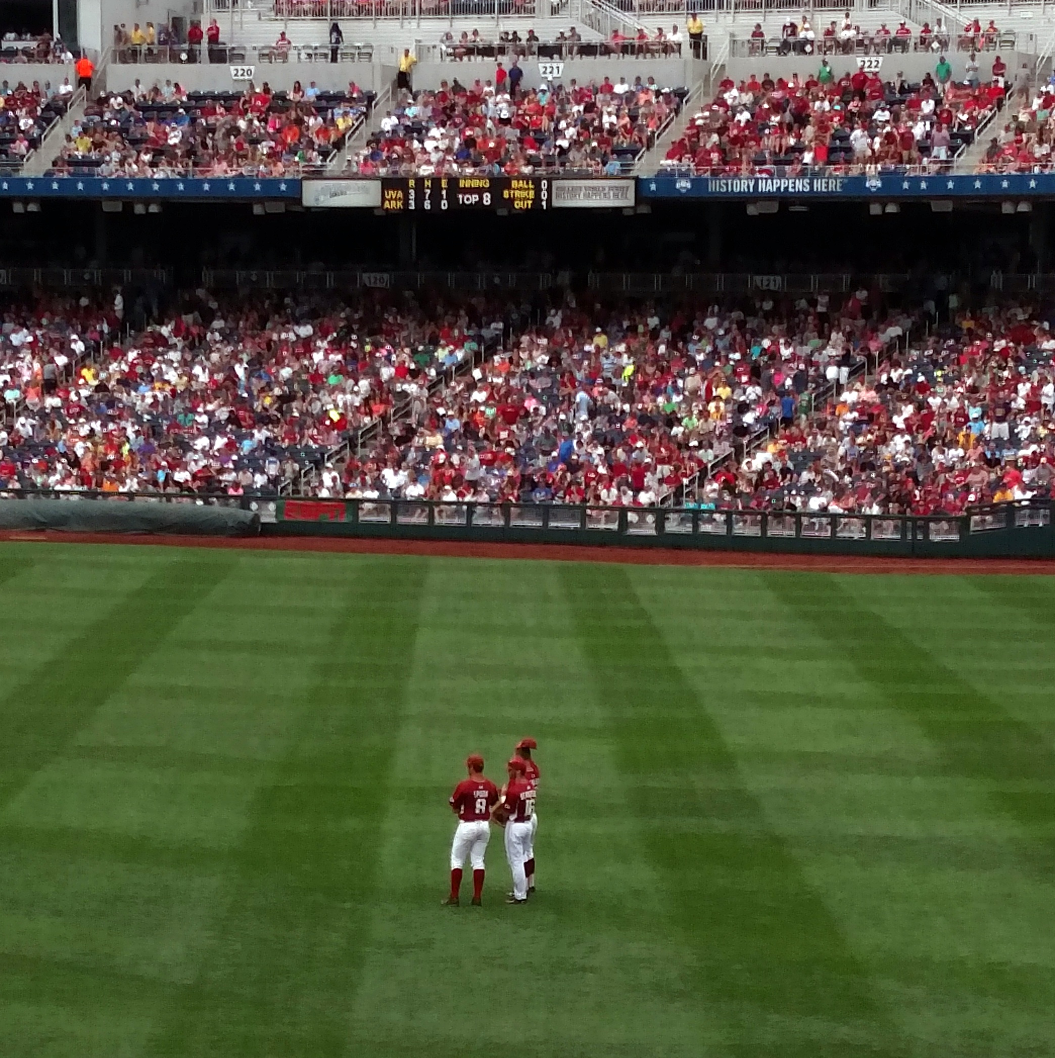 Tyler Spoon (left), Andrew Benintendi (center) and Joe Serrano (right) confer during a pitching change during game 1 of the 2015 College World Series, TD Ameritrade Park, Omaha, NE